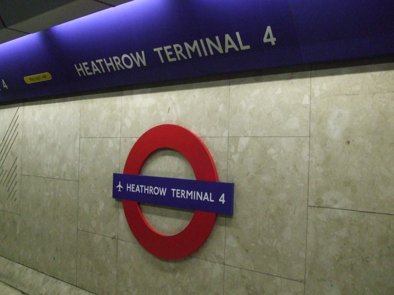 Roundel on Heathrow Terminal 4 tube station platform